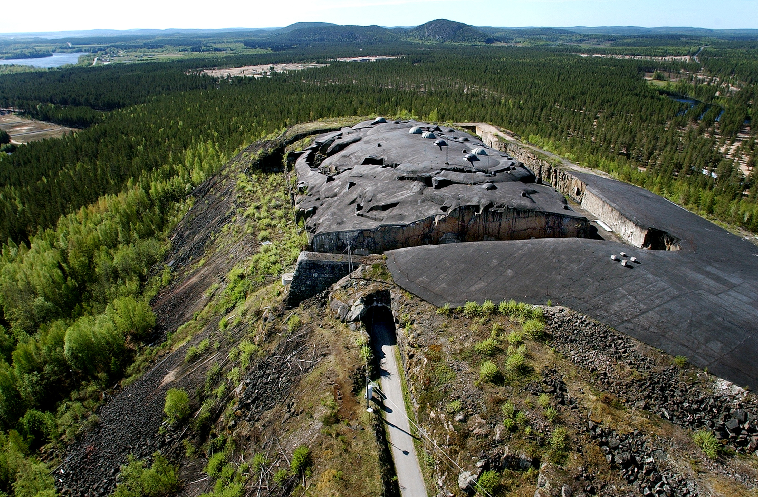 Rödberget fort, part of Boden Fortress seen from the north.